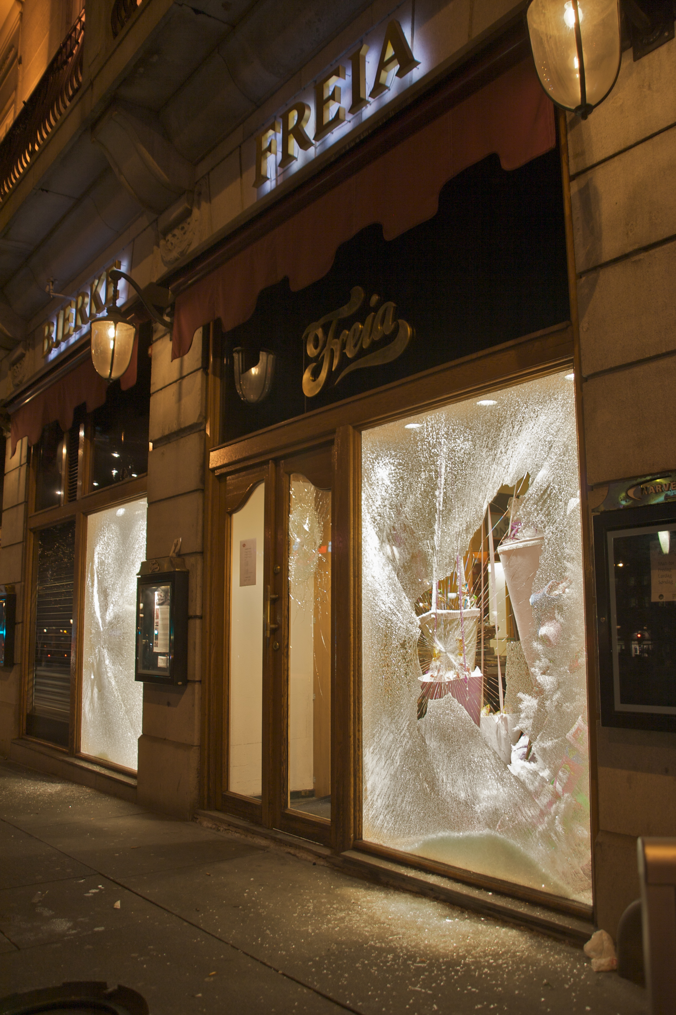 Some shop windows smashed during Oslo riots on 8 January 2009.